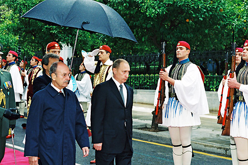 ATHENS. President Konstantinos Stephanopoulos (left) of the Hellenic Republic officially welcomes President Putin.